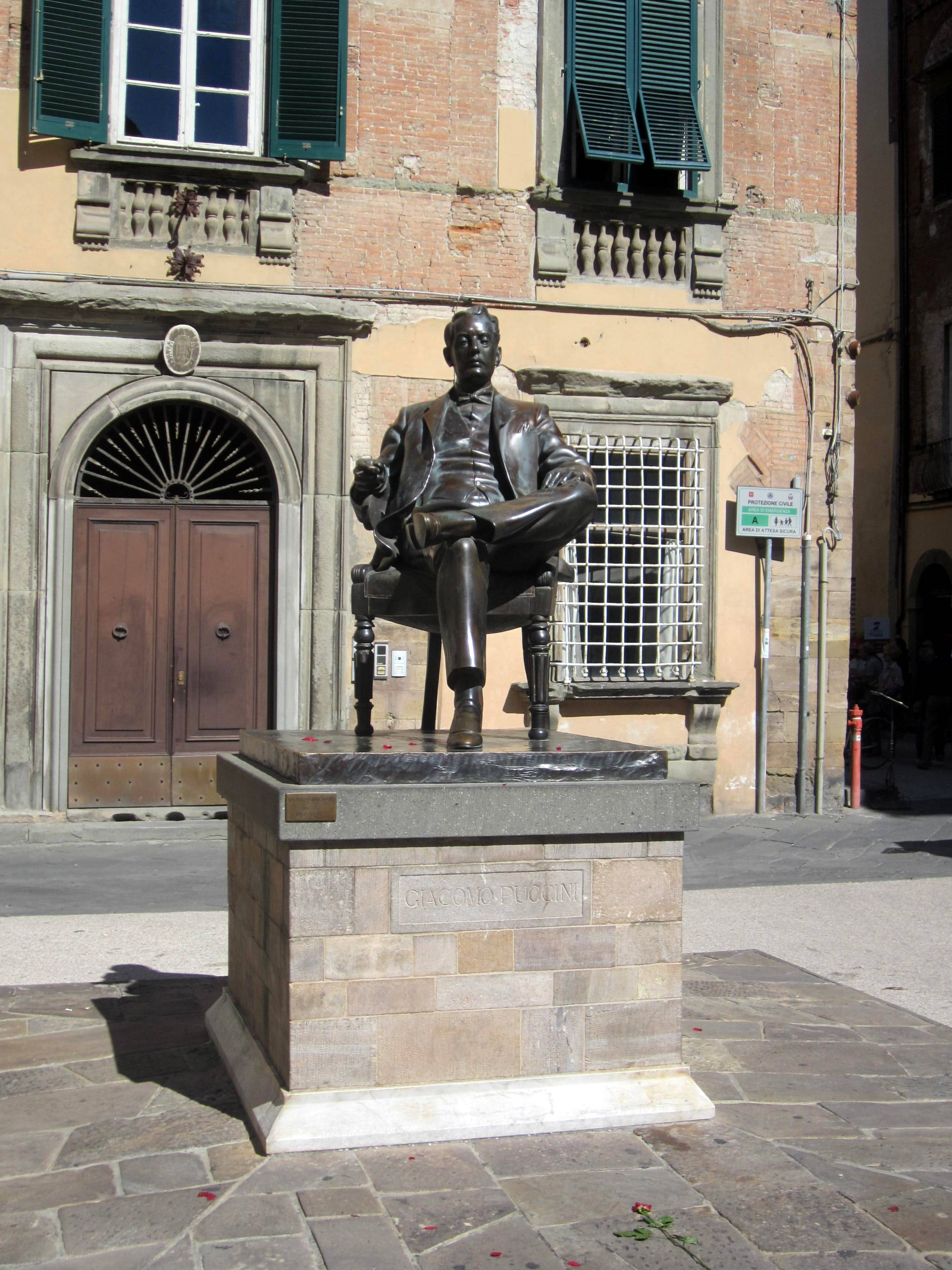 Lucca, Tuscany, Italy. Monument to Giacomo Puccini